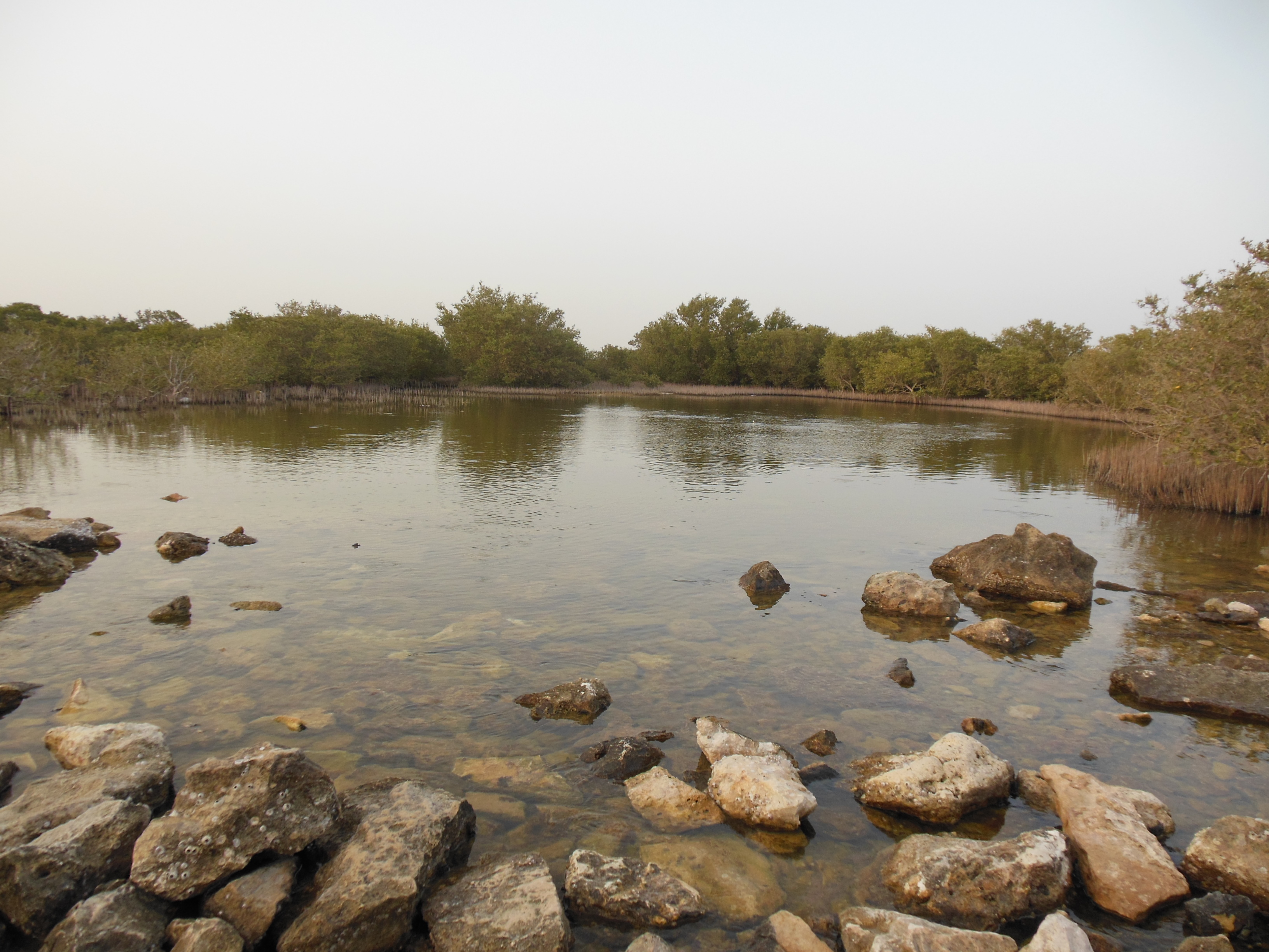 Vegetation in Al Khor Island.